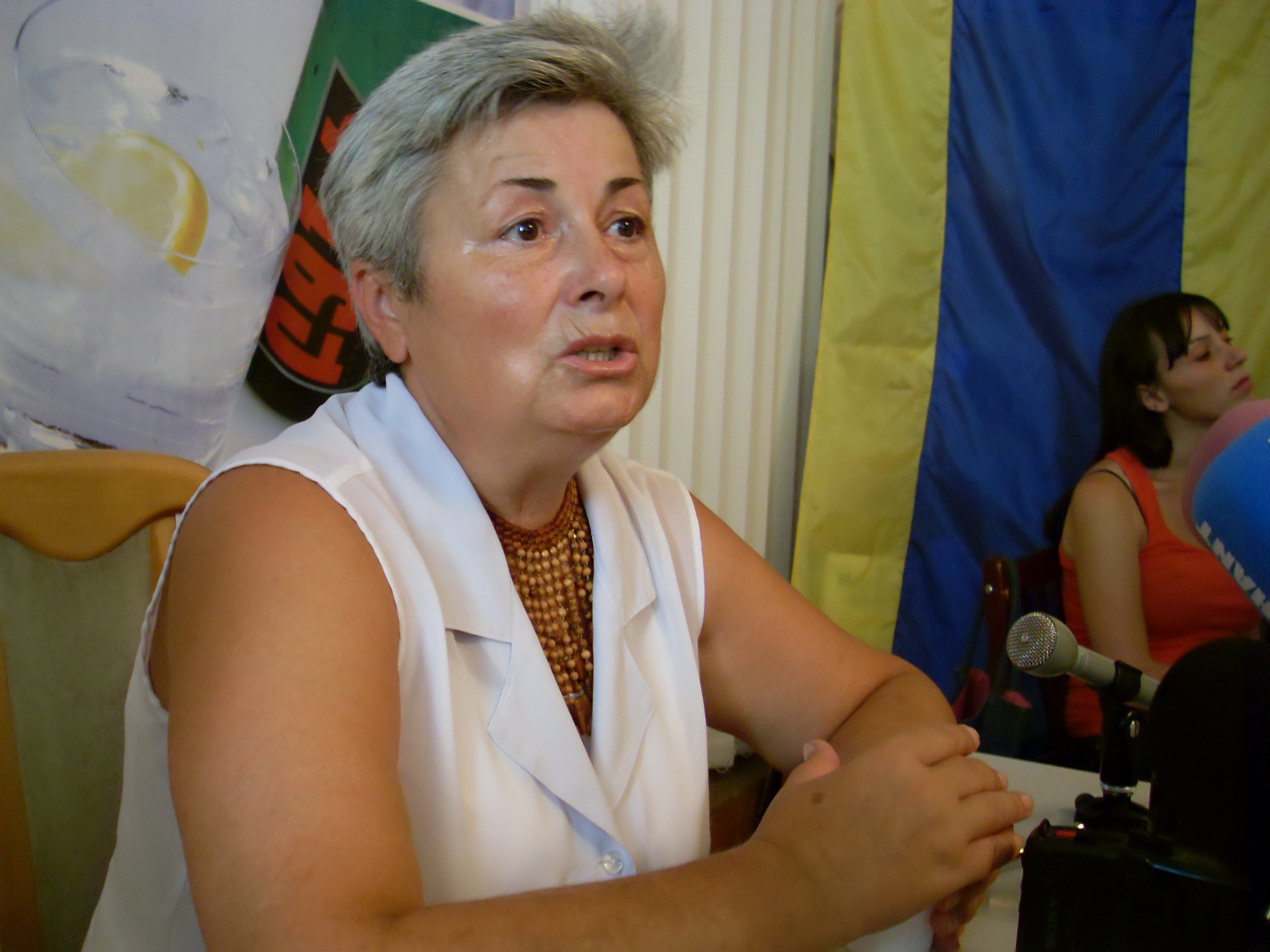 Hranush Kharatyan, armenian Sociologist